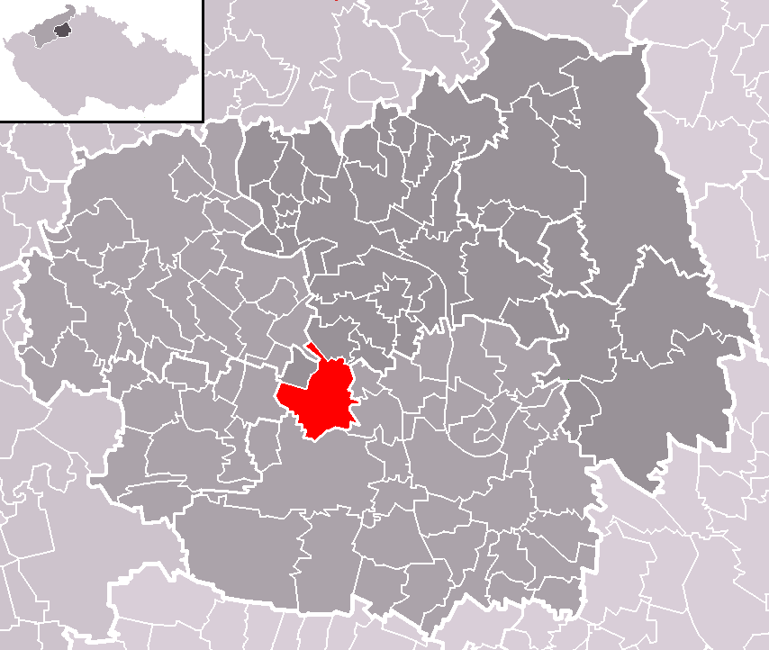 Location of Brozany nad Ohří municipality within Litoměřice District and administrative area of Litoměřice as a Municipality with Extended Competence.